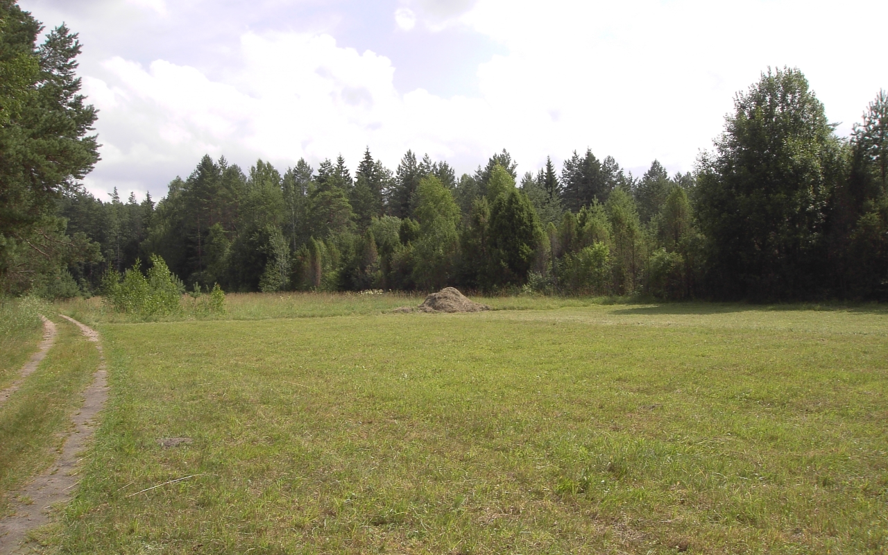 Juniper grove of Pabaluošė (Šuminai), Utena district, Lithuania